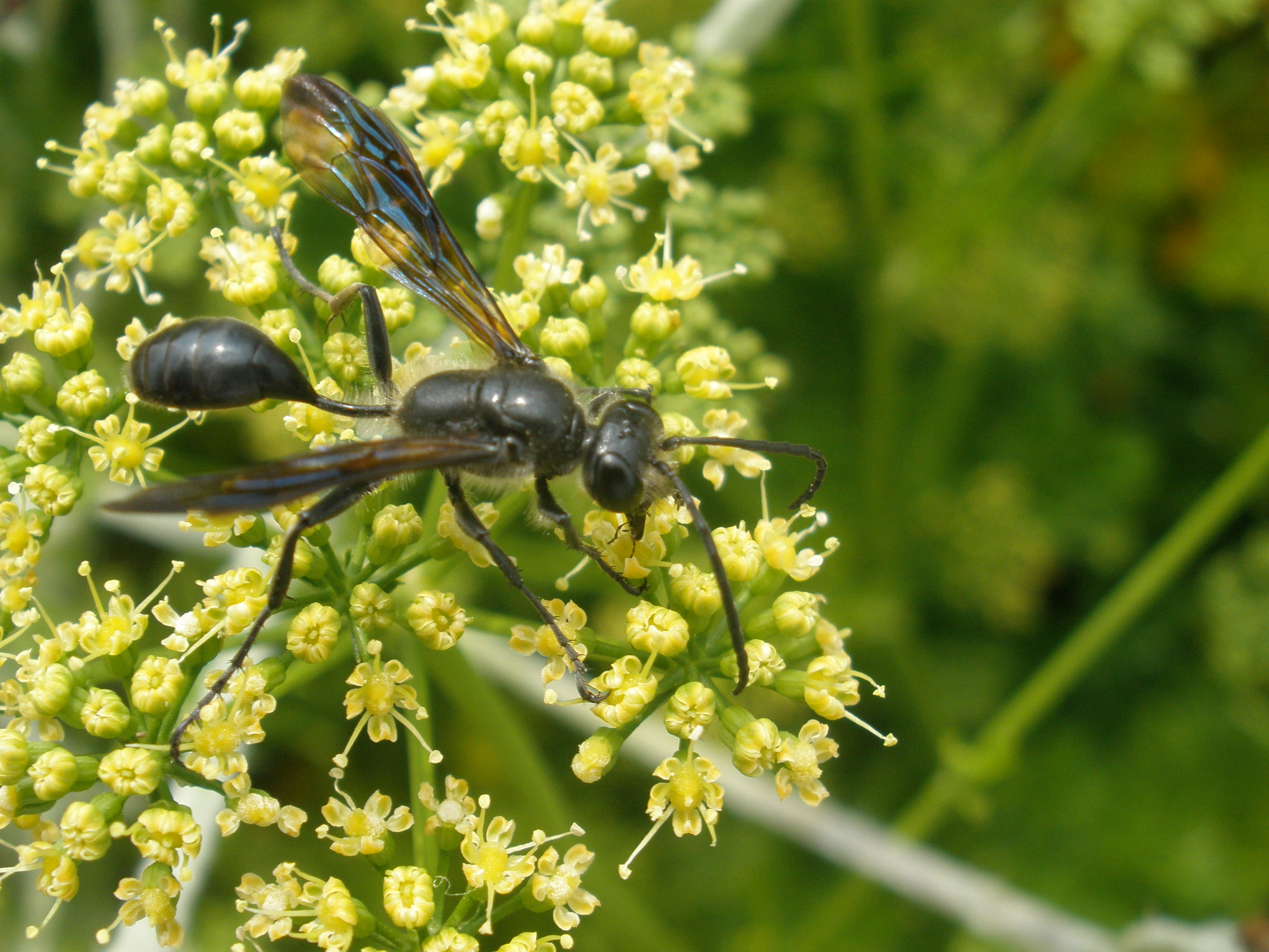 Isodontia mexicana